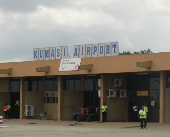 Kumasi Airport (Ghana) from ramp